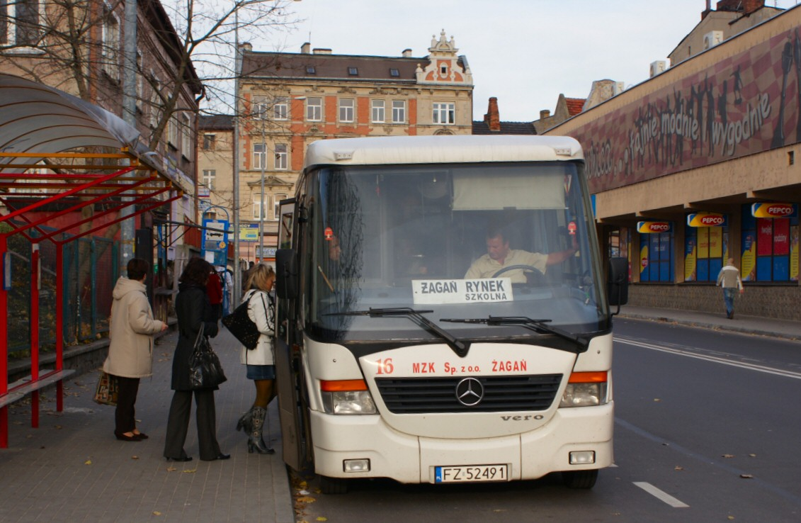 Jelcz L081MB/3 Vero bus (#16, reg. FZ 52491) in Żagań, Poland. Built 2006, MZK Żagań operator.